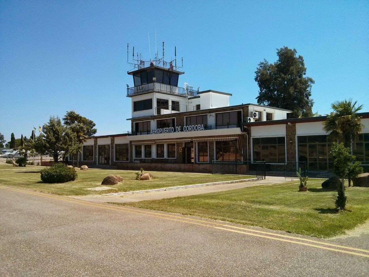 Vista de la terminal del Aeropuerto de Cordoba desde la zona aire